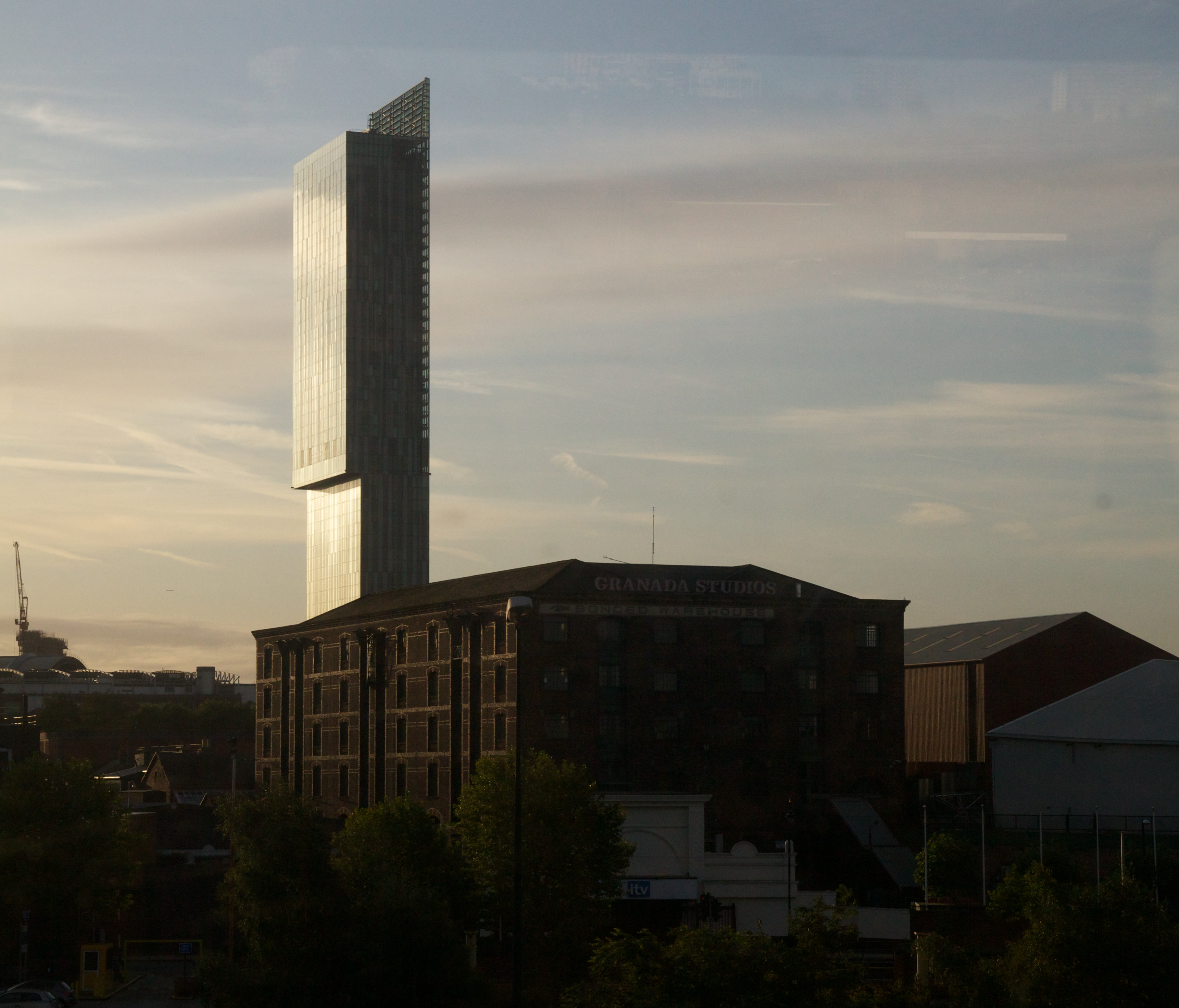 At sunrise - taken through the window of the Caledonian Tornado en route to Glasgow. The Beetham Tower was built in 2006 and houses a Hilton Hotel as well as condominiums. The warehouse in the foreground houses some of the Manchester Granada TV operations.